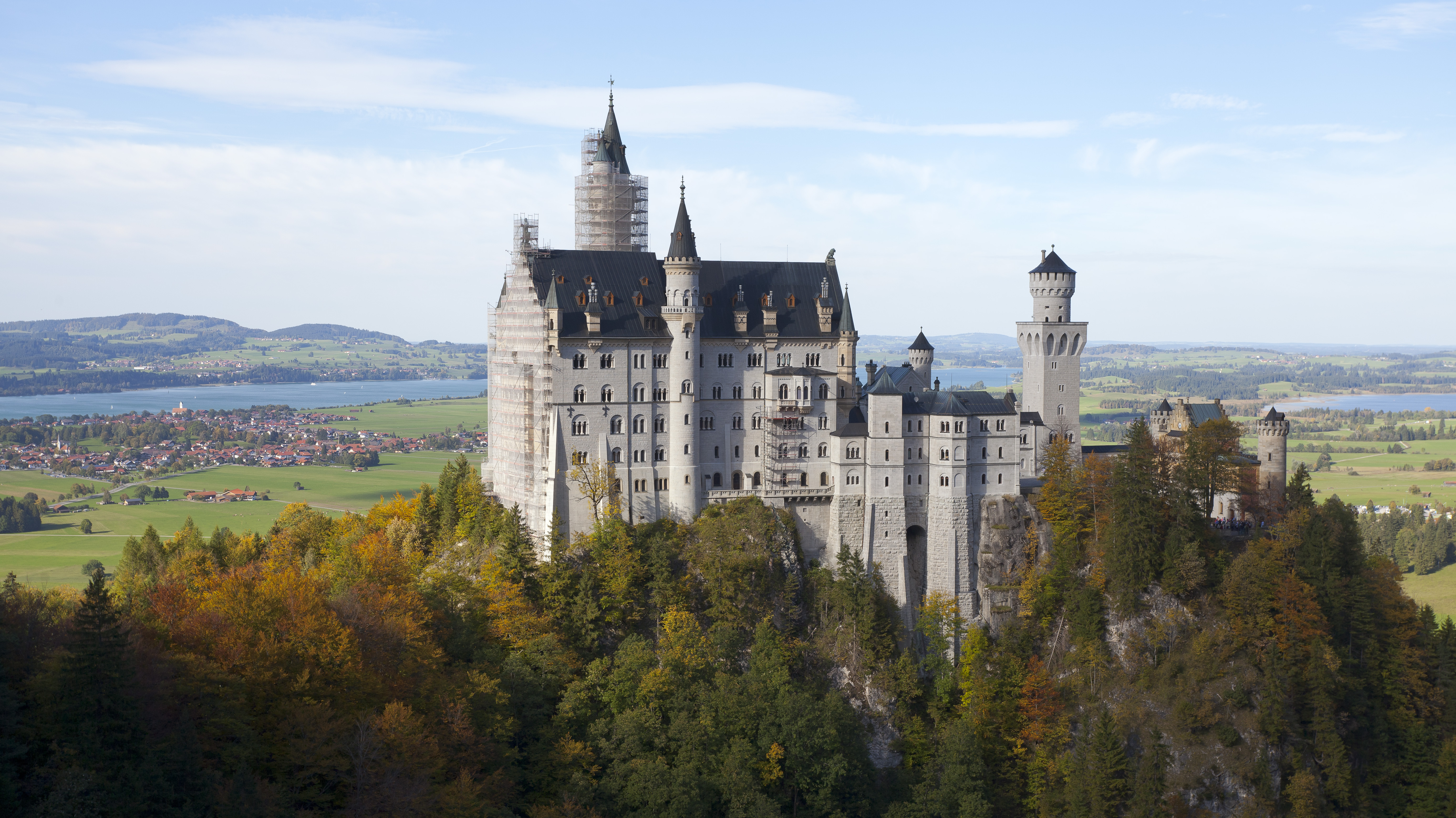 Neuschwanstein Castle from Marienbrücke, Füssen, Germany